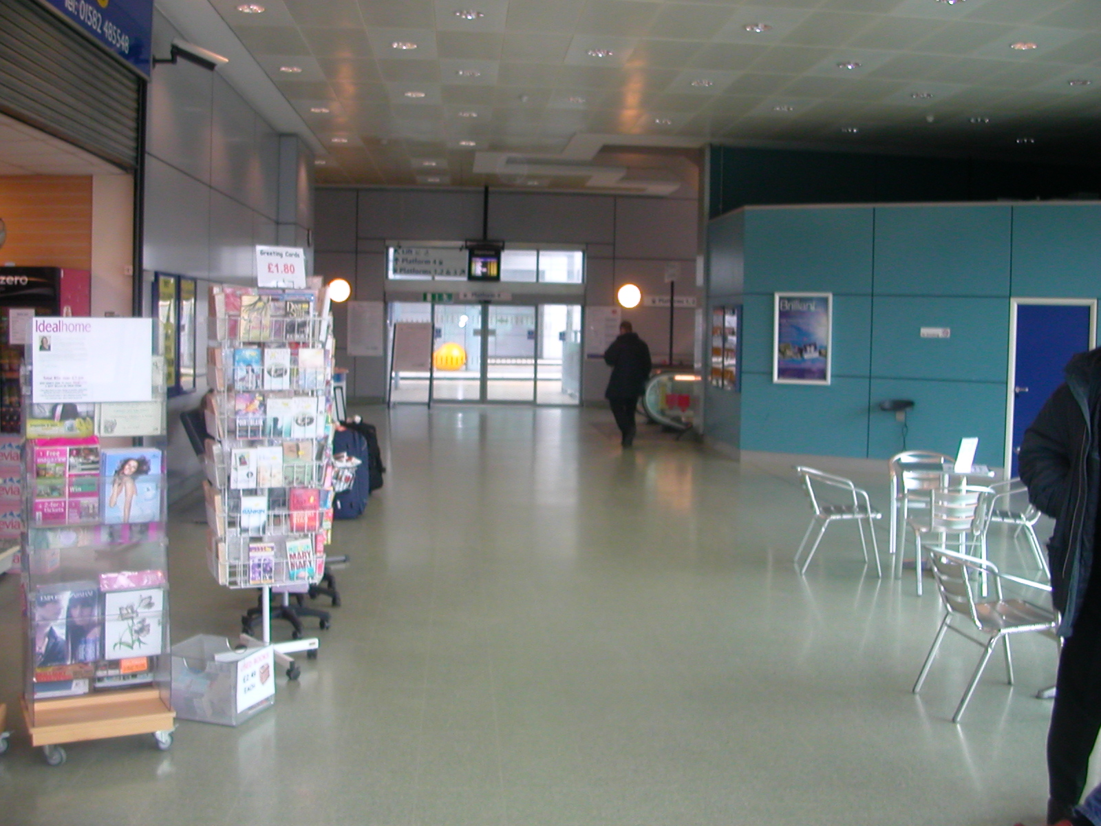 Concourse adjacent to Platform 4. Photographed on 13th January 2007.